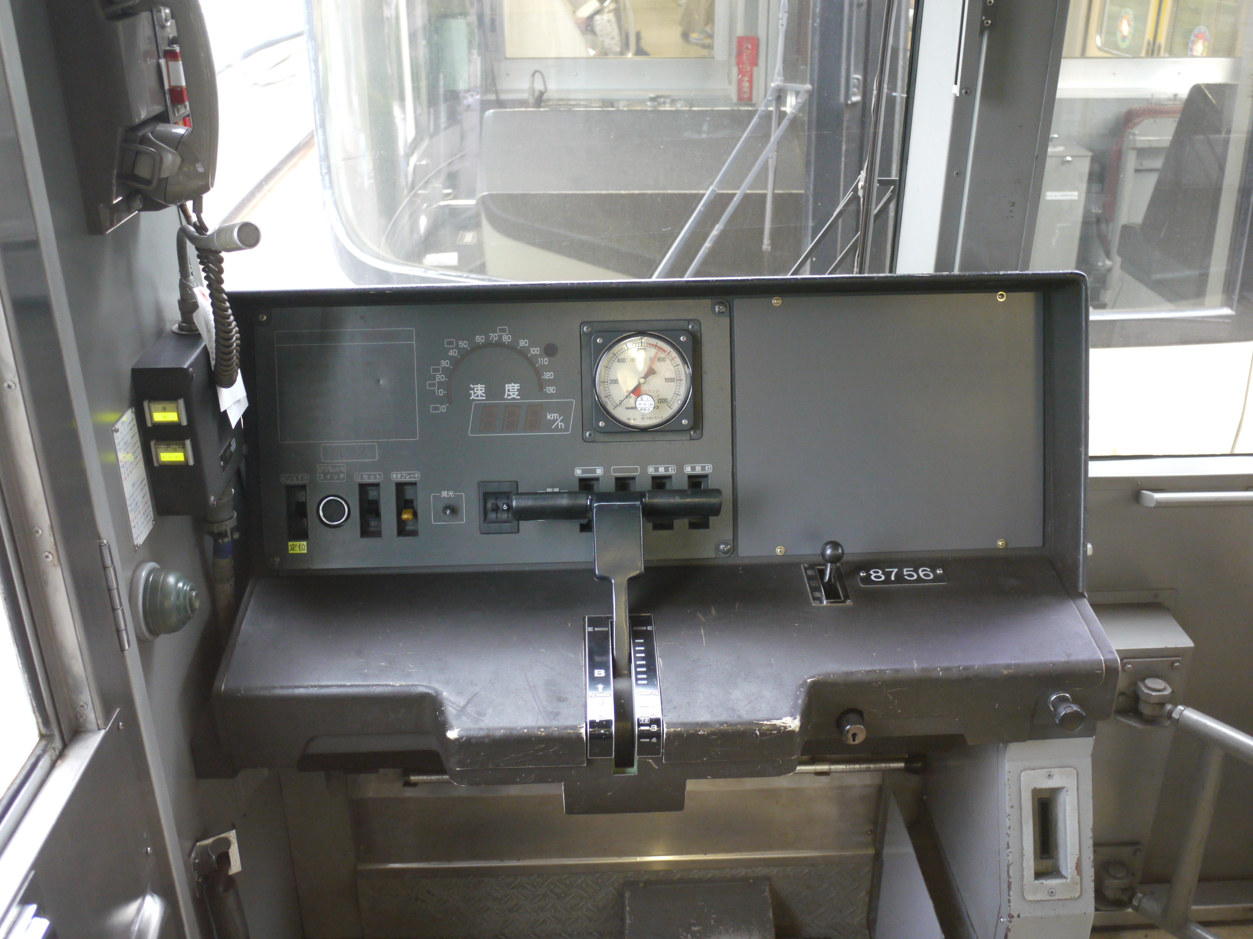 Keio 8000 Drivers cabin. This drivers cabin has not been adopted to new signaling system, i.e. Keio ATC hence it still has digital speedometers.